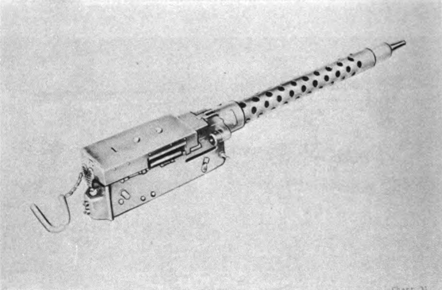 M73 Machine Gun, which is the only Standard A, 7.62-inm, co-axial machine gun in the Army inventory. It is used as the co-axial machine gun on the M60 family of tanks, the M48A3 tank, and the M551 Armored Reconnaissance Airborne Assault Vehicle (Sheridan). It is used primarily against personnel targets